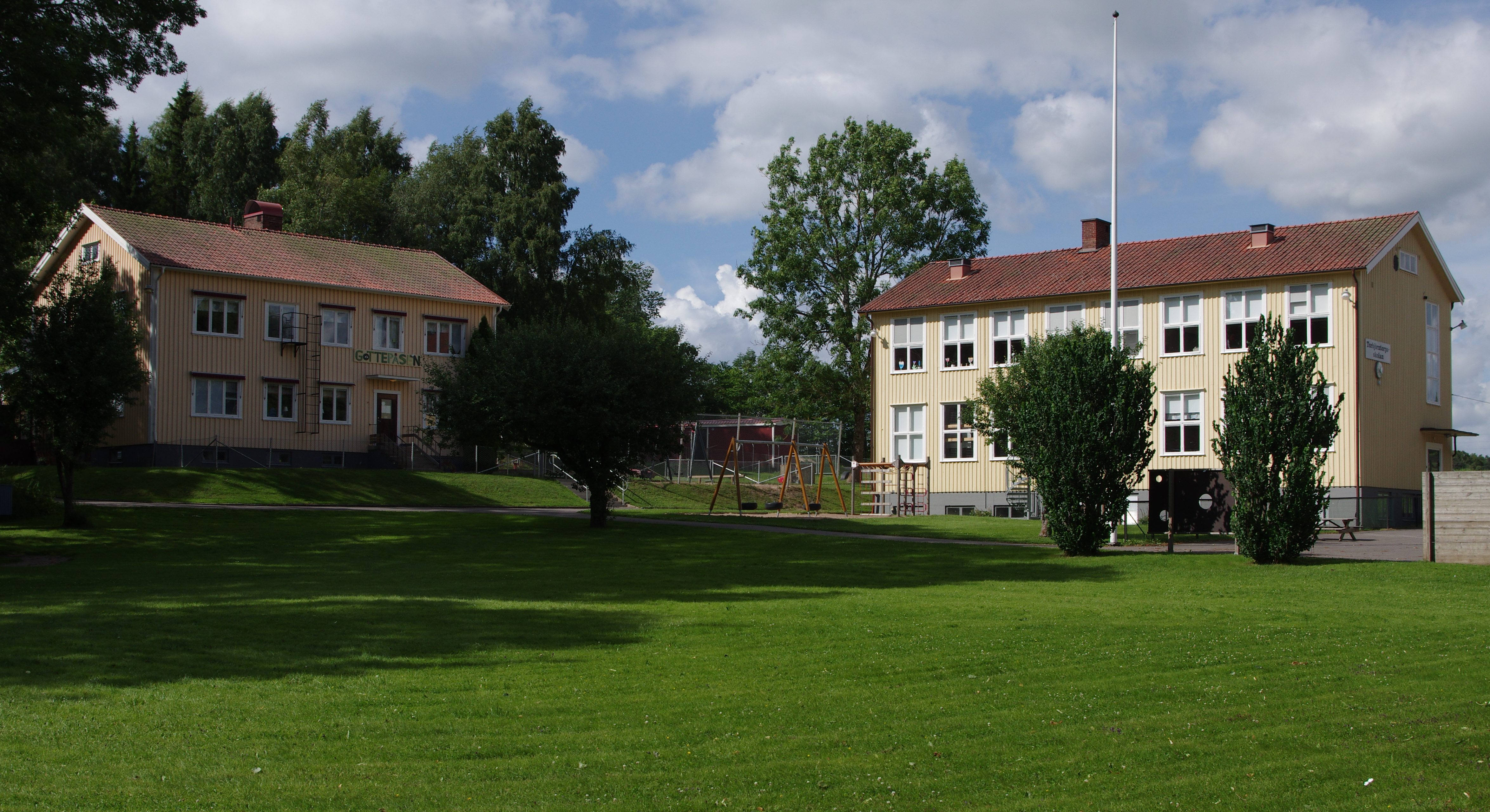 The local school in the village Torbjörntorp in Västergötland, Sweden.